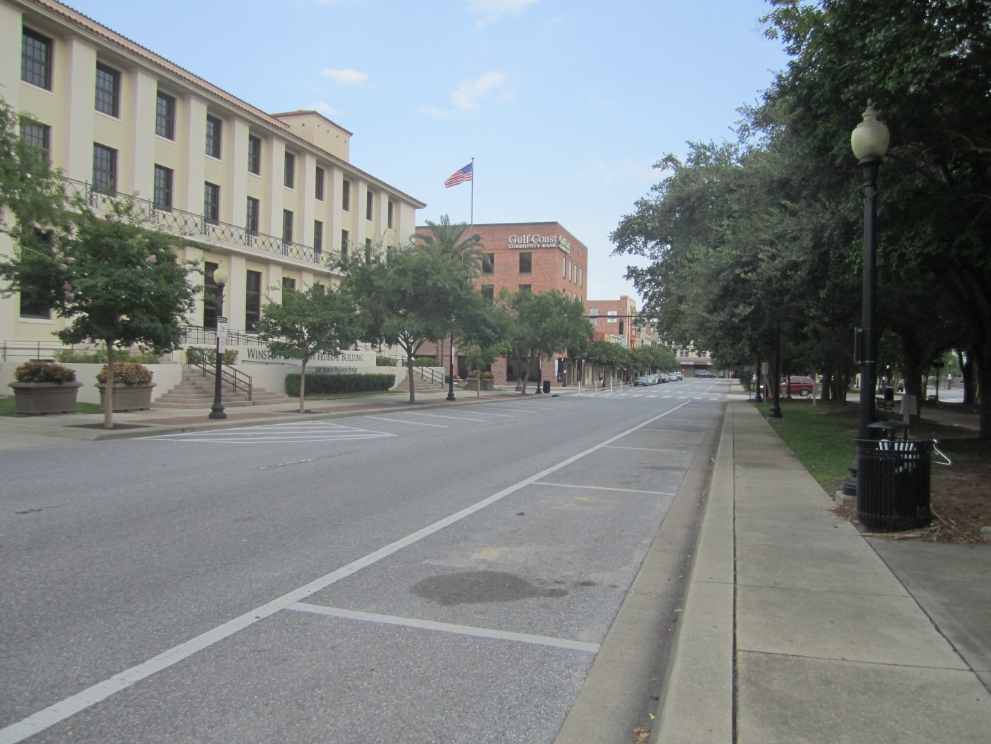 Palafox Historic District National Register of Historic Places, Pensacola, Florida